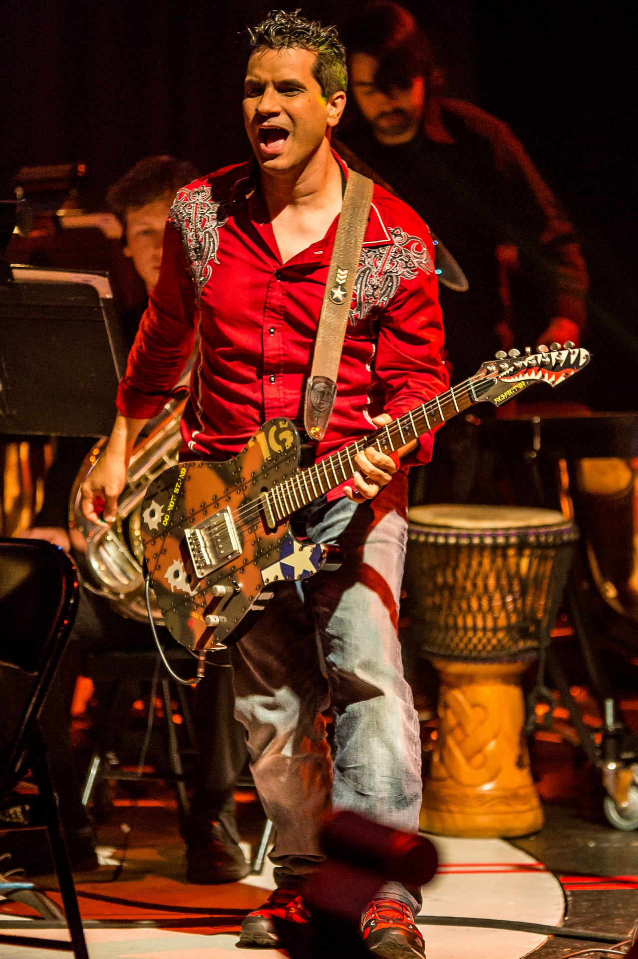 Friday, July 22, 8pm at the NYCB Theatre at Westbury